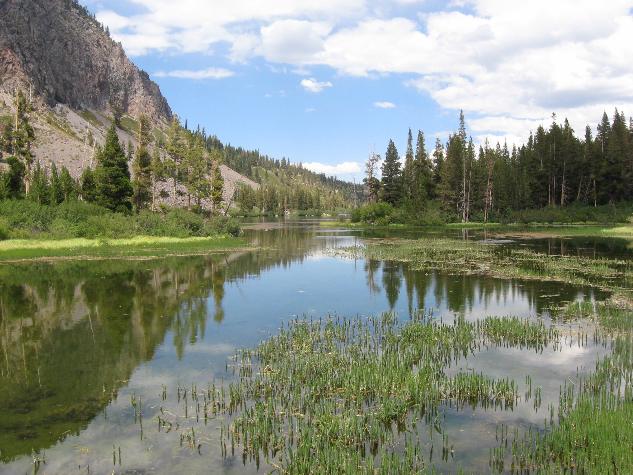 Twin Lakes at Mammoth Mountain in Mammoth Lakes, California, U.S.A. Here is a frozen and snowy version. By the lake are Tamarack Lodge & Resort, a general store, a picnic area, etc. The general store, the picnic area, etc. and parts of the scenic roads in the area are closed during winter and much of the area is used for cross-country skiing.